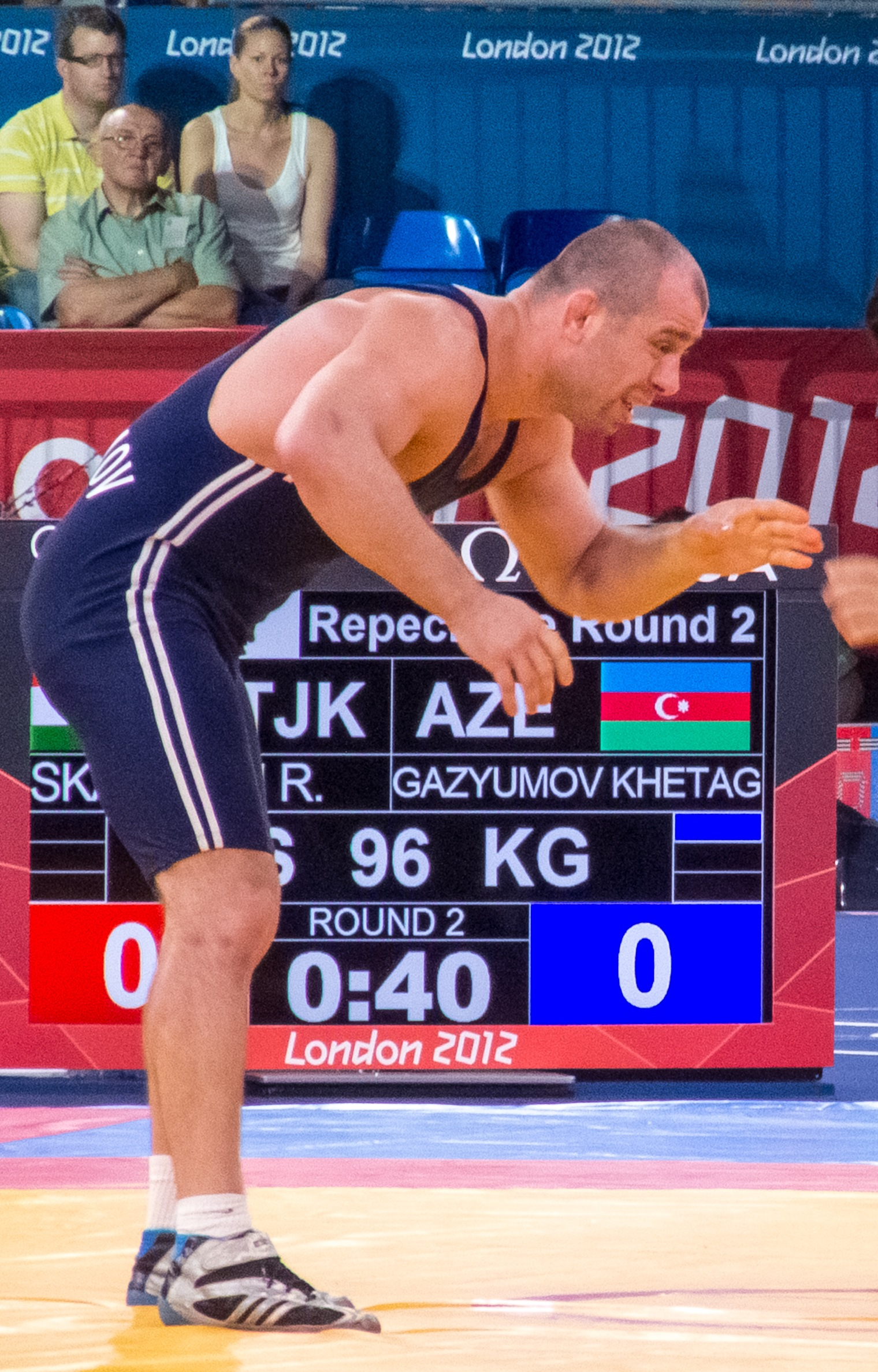 Khetag Gazyumov, 2012 Summer Olympics